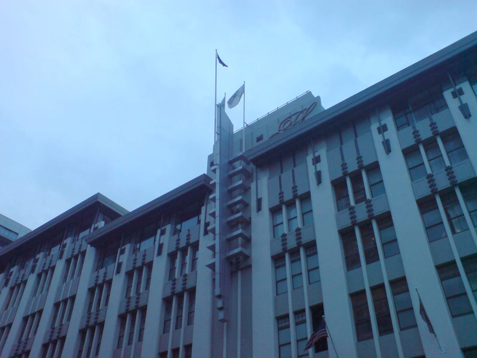 The former Farmers department store building in Auckland, New Zealand. Now a hotel, with the Art Deco facade seen here from the east.